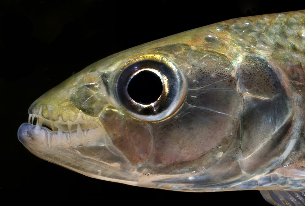 "Billy Badass" the Hydrocynus brevis at about six inches; head detail. I will update this file as he grows.